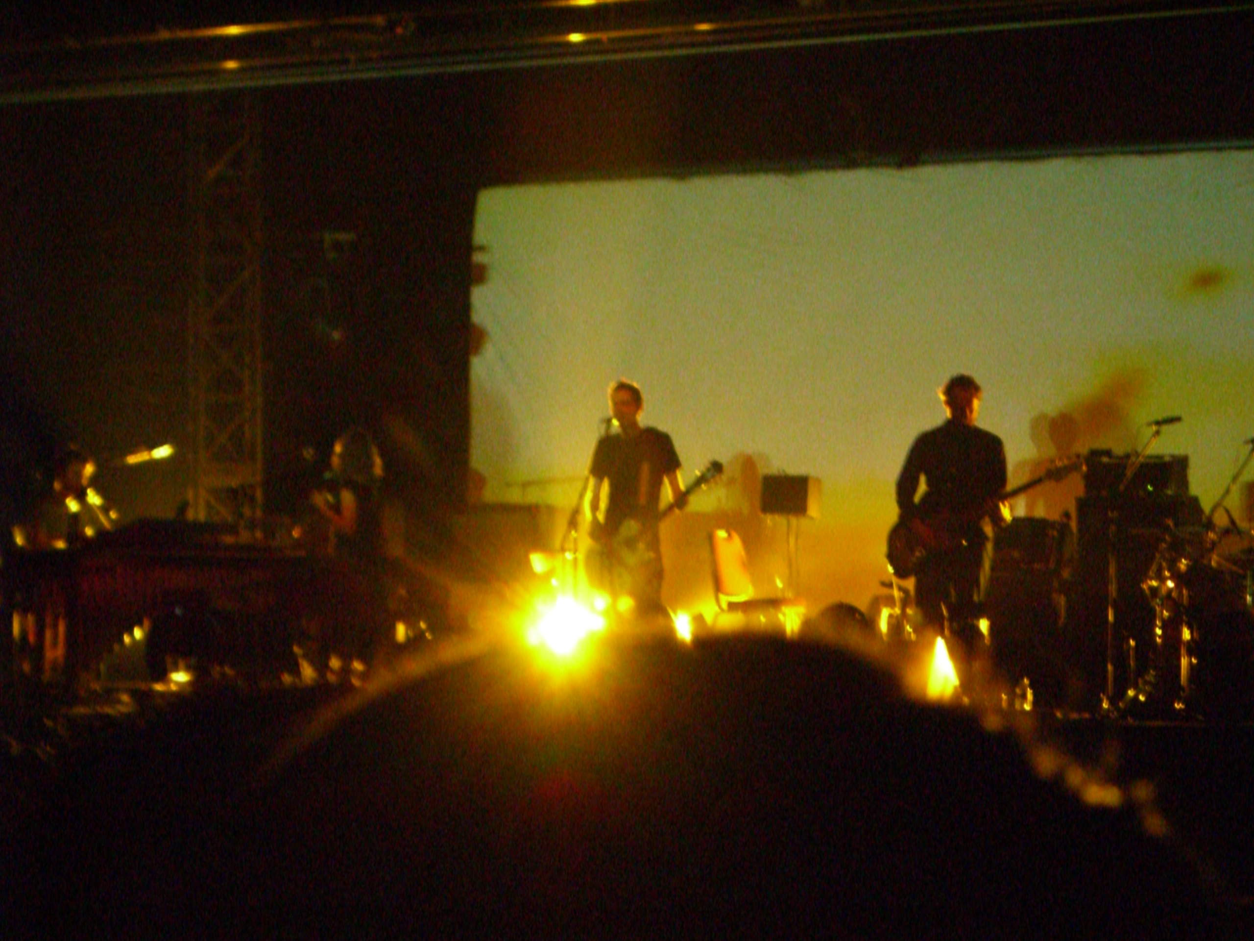 A picture taken by me.